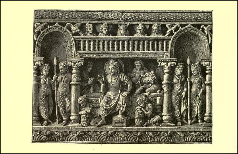 Frontispiece to Edwin Arnold's Book The Light of Asia, 1885 ed.